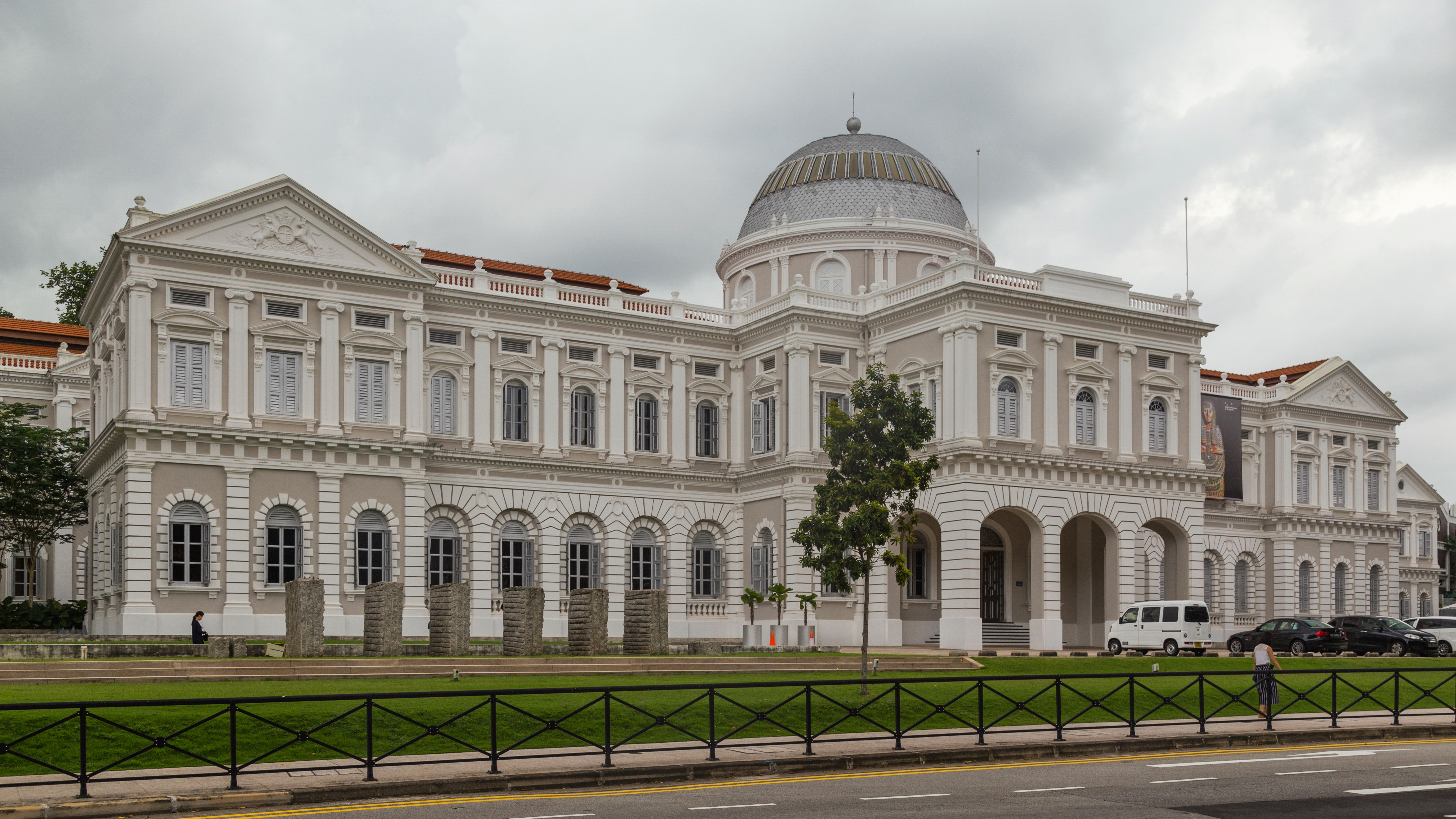 National Museum of Singapore. Museum Planning Area, Central Region, Singapore.